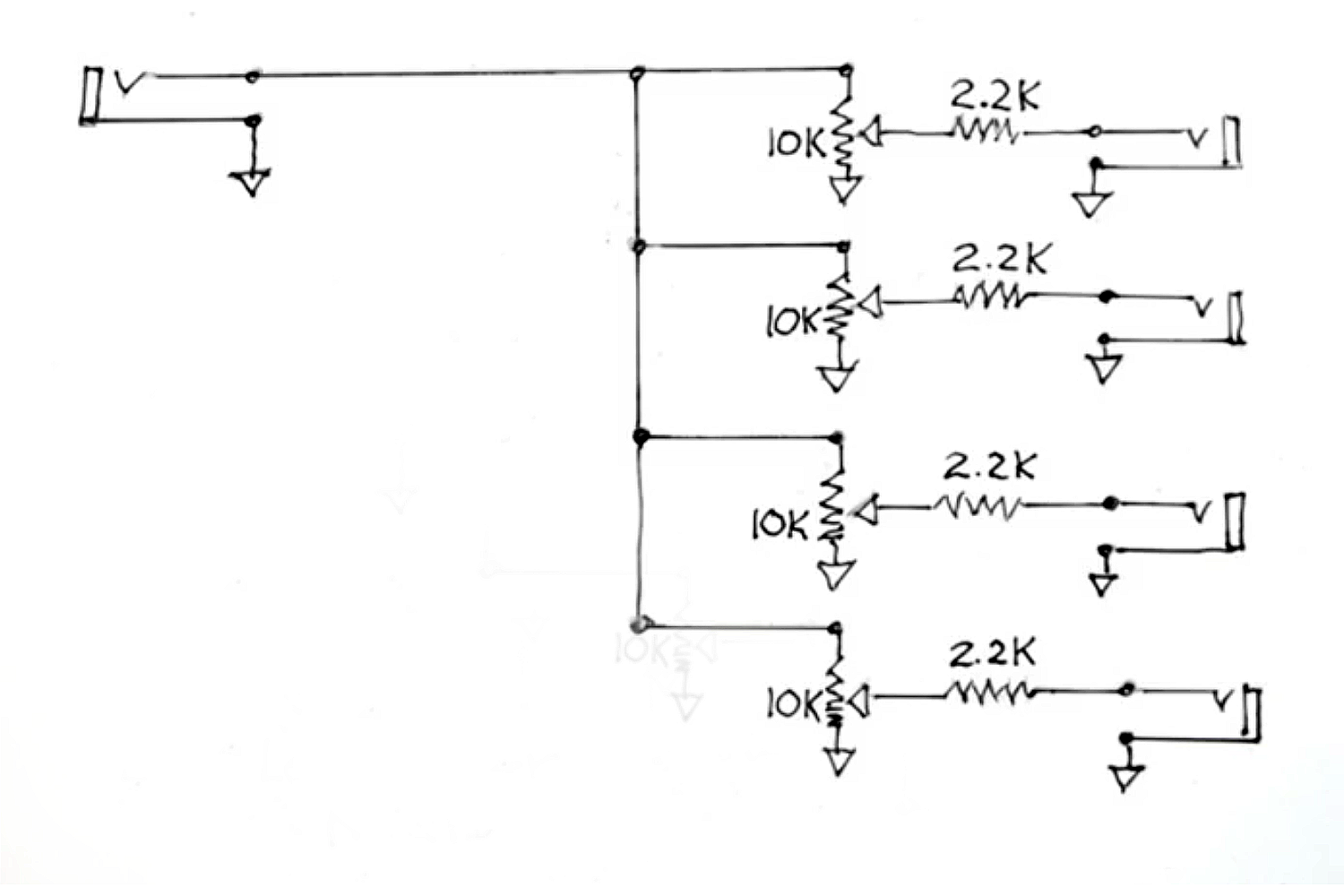 line level mixer